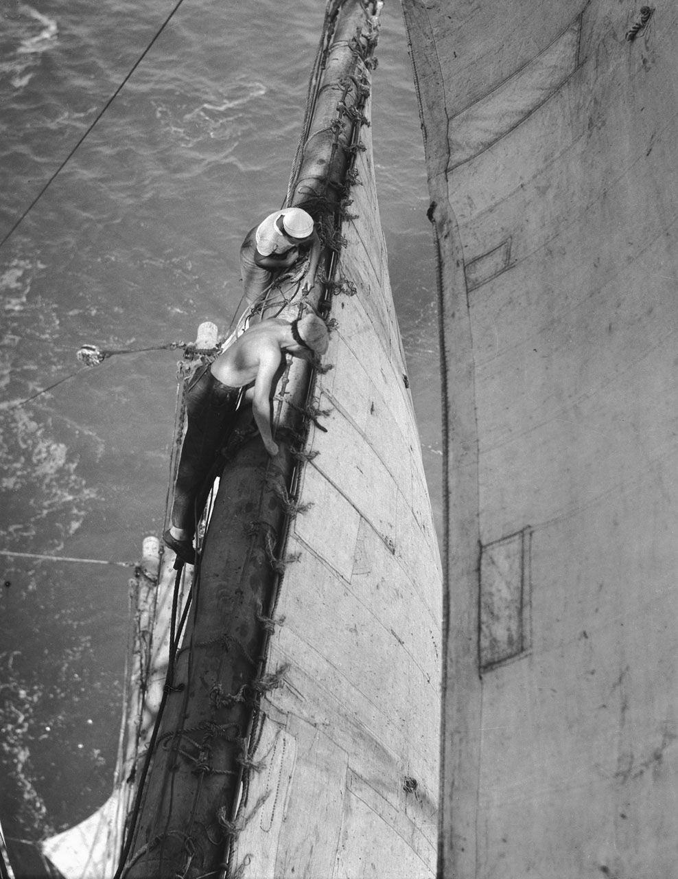 Working on an upper topsail yard of the 'Parma'. Reproduction ID: N61544 Maker: Alan Villiers Villiers collection